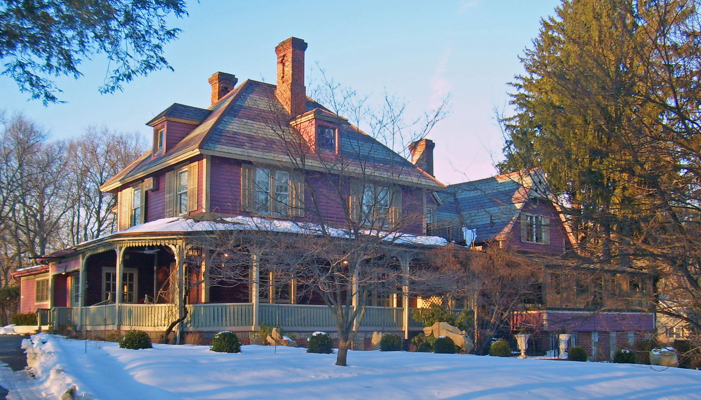 Plumbush, former home of Robert Parker Parrott outside Cold Spring, NY, USA